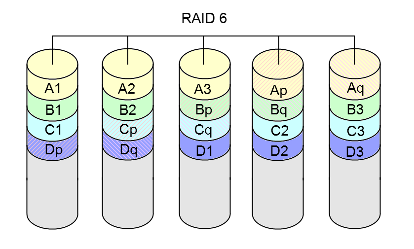 Diagram of RAID 6 storage